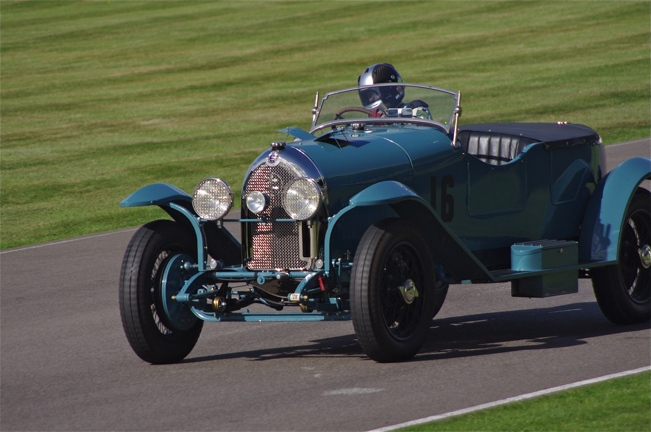 1925 Lorraine Dietrich B-3-6 Torpedo at Goodwood Revival 2012. this car looks very similar to the 1925 Le Mans winner.